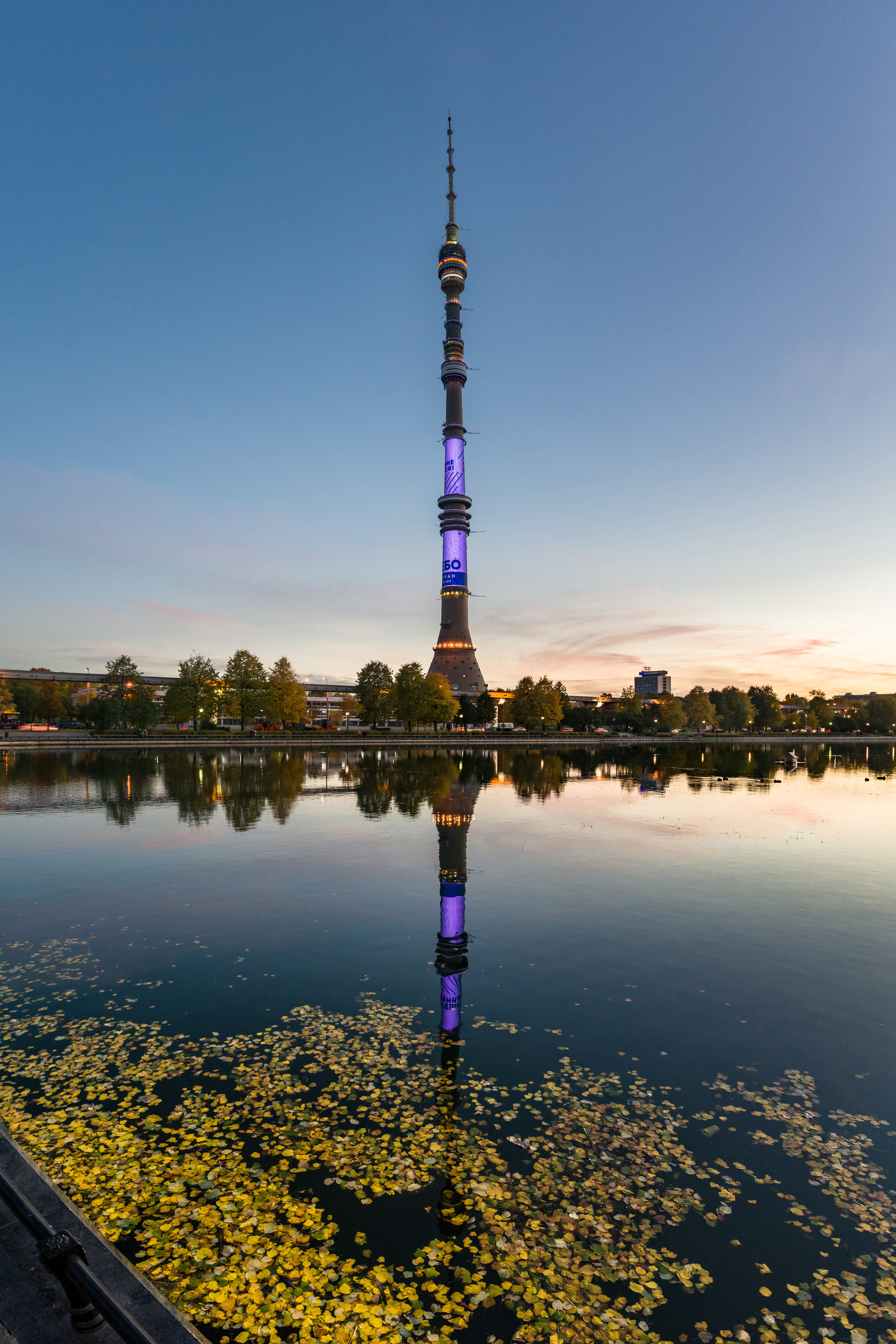 The Ostankino TV tower in Moscow.